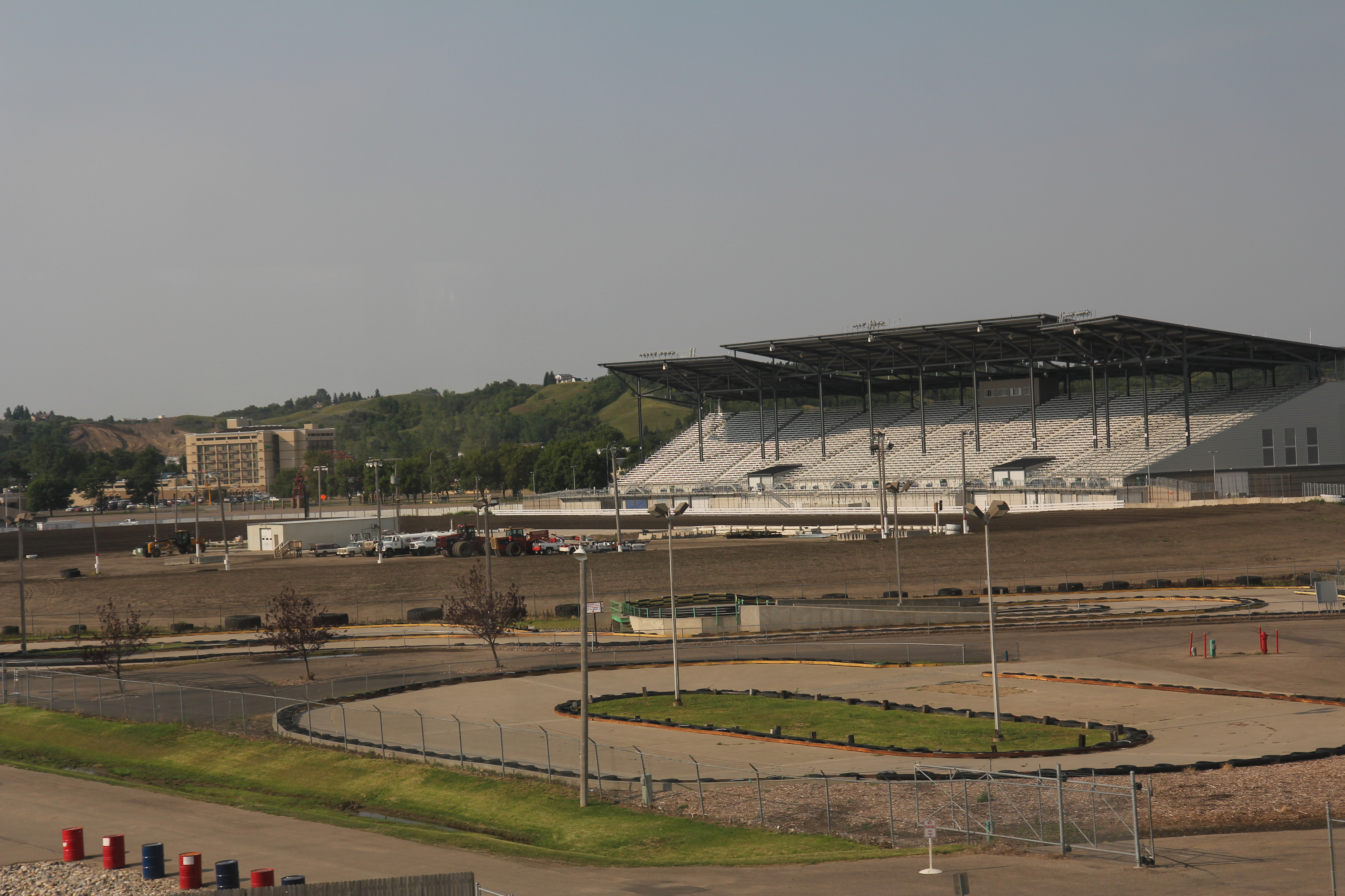 Nokak Speedway at the North Dakota State Fair in Minot, North Dakota.